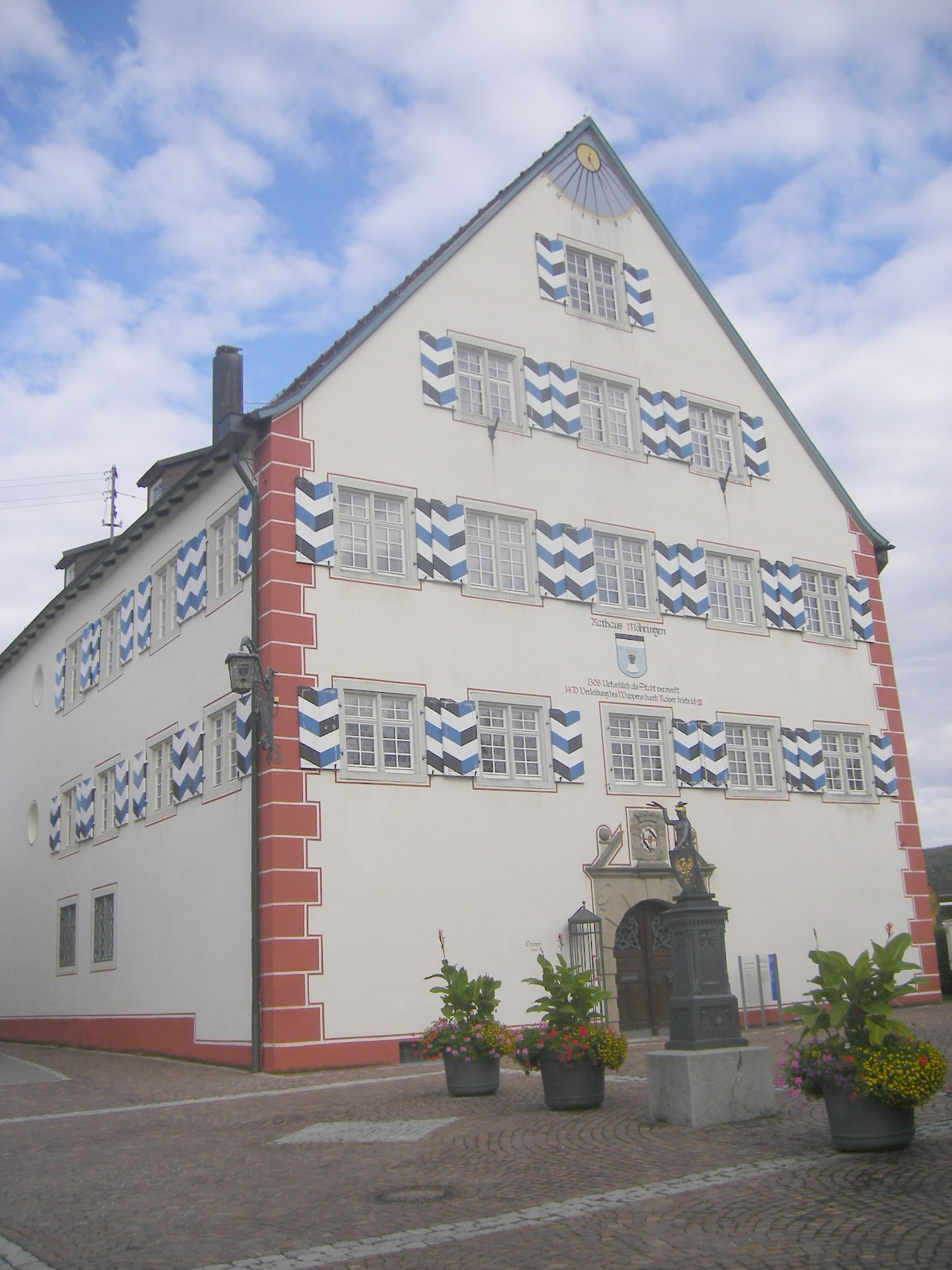 Möhringen (Tuttlingen municipality)